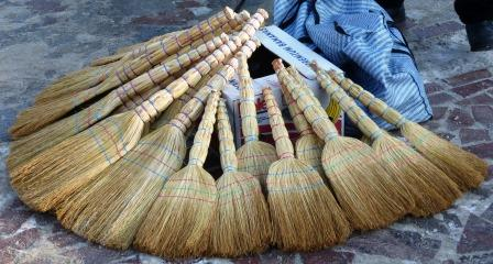 Besom brooms. Petrozavodsk.Karelia